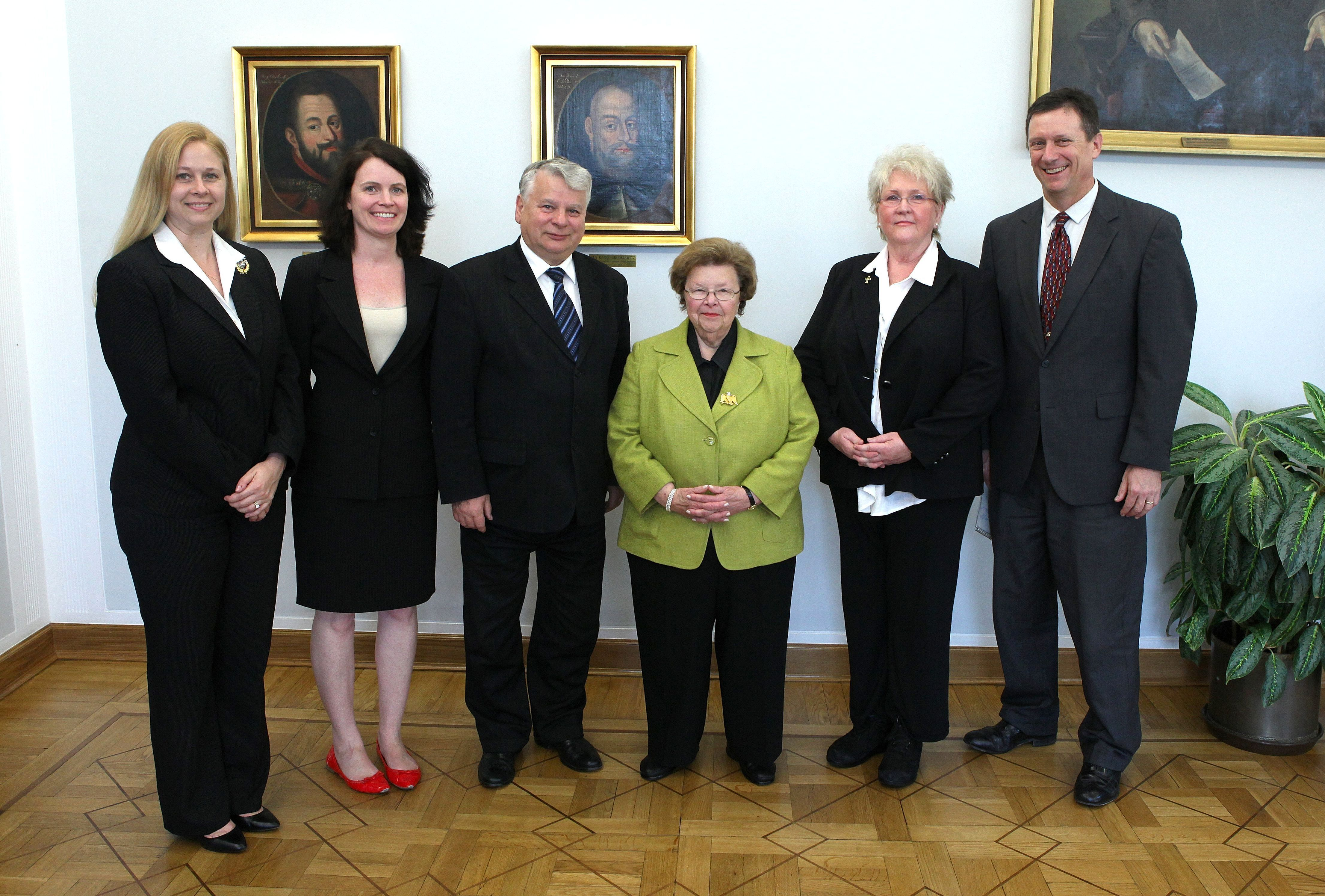 US Senator Barbara Mikulski in the Polish Senate